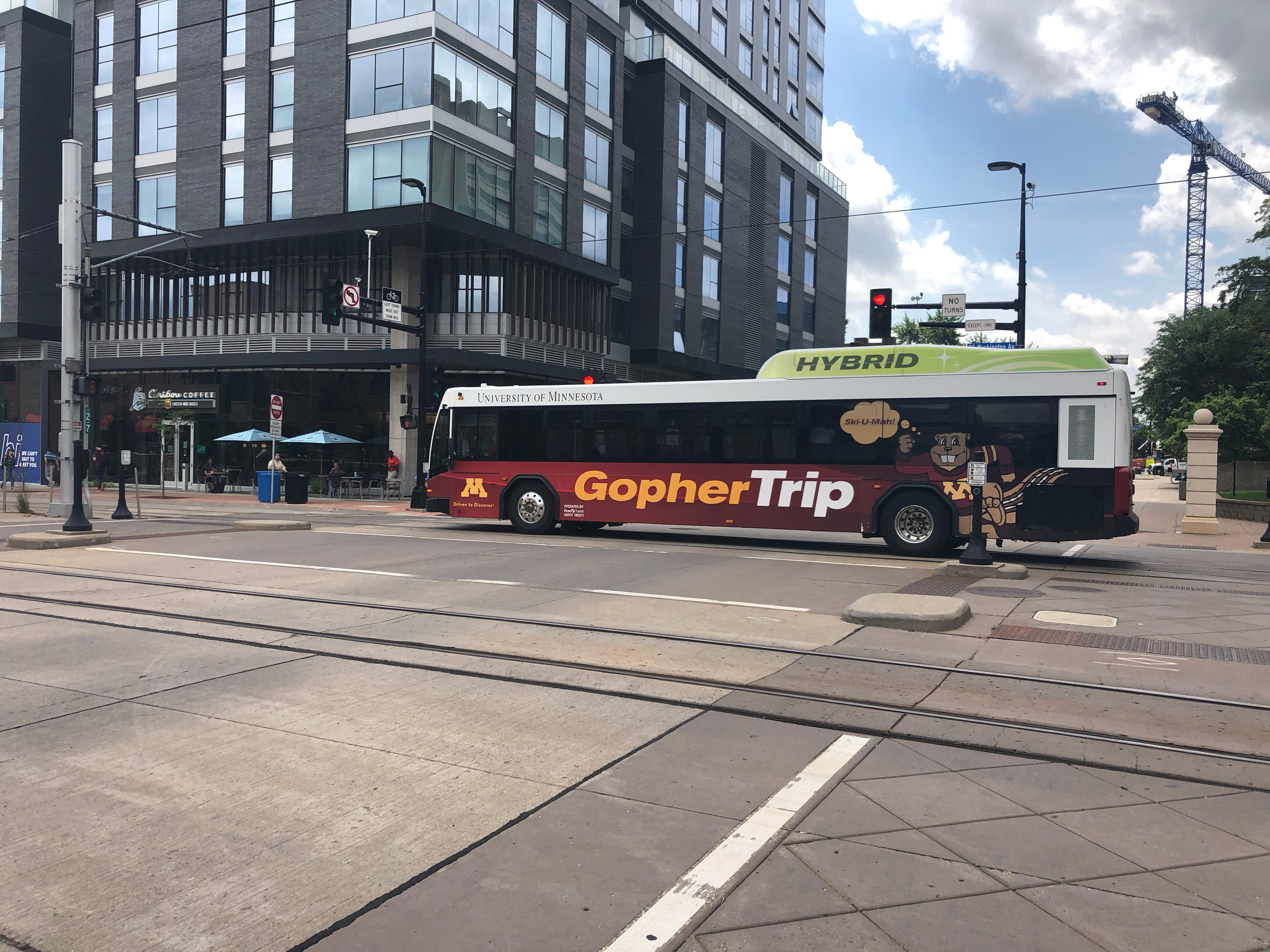 GopherTrip Hybrid Bus in on East Bank of University of Minnesota